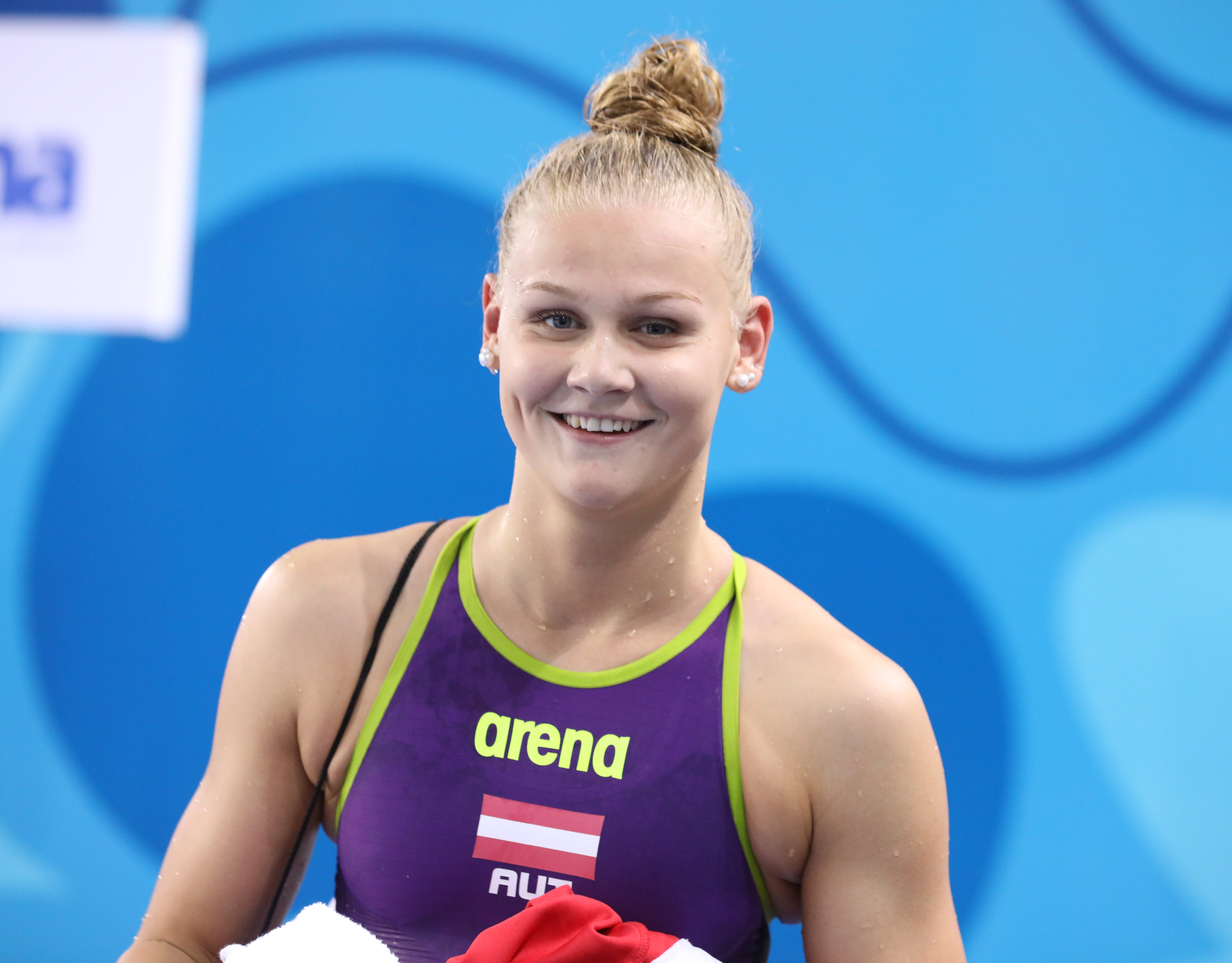 Girls' Swimming, 200 m Freestyle Final at the 2018 Summer Youth Olympics in Buenos Aires at the 10th October 2018